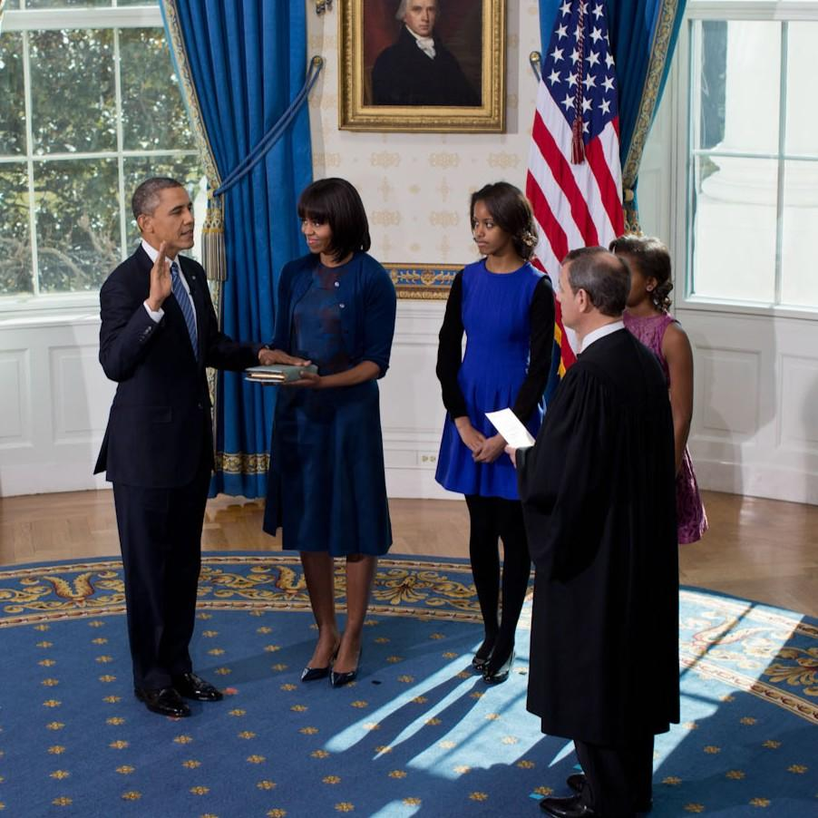 United States Supreme Court Chief Justice John Roberts administers the oath of office to President Barack Obama during the official swearing-in ceremony in the Blue Room of the White House on Inauguration Day, Sunday, 20 January 2013. First Lady Michelle Obama holds the Robinson family bible while daughters Malia and Sasha stand nearby.